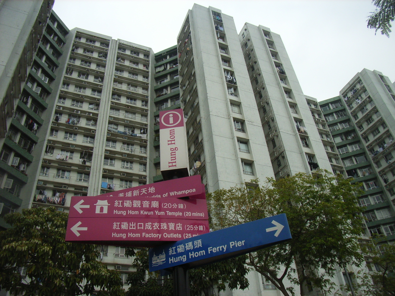 位於zh:九龍zh:紅磡zh:黃埔花園的Lily Mansions, Hung Hom, Kowloon, Hong Kong. Photo created by User:HungBEER.